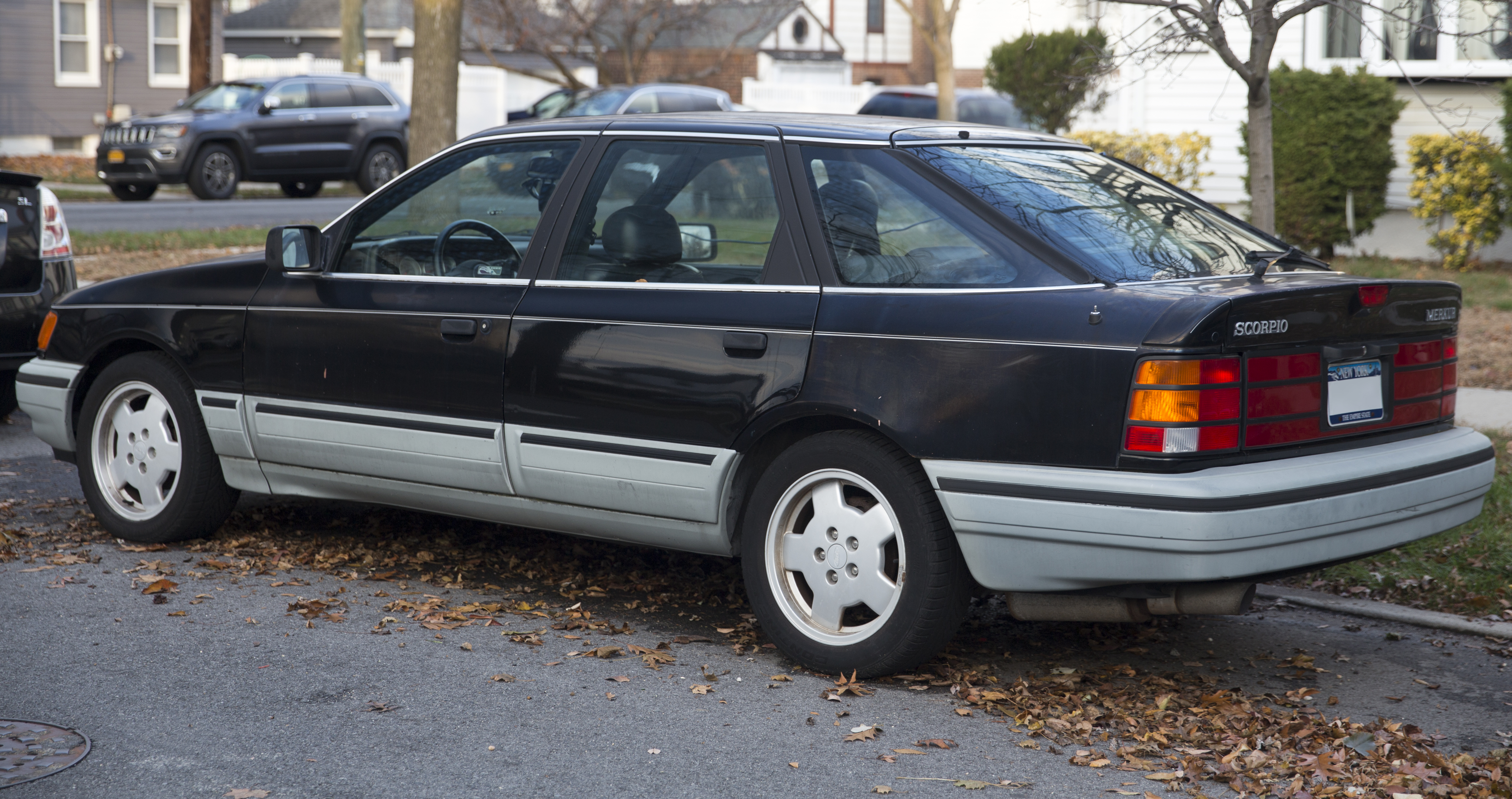 A 1989 Merkur Scorpio; 2.9-liter Cologne V6 with 144hp and a five-speed manual. This example seems to have been fitted with the European 24-valve version's alloy wheels.